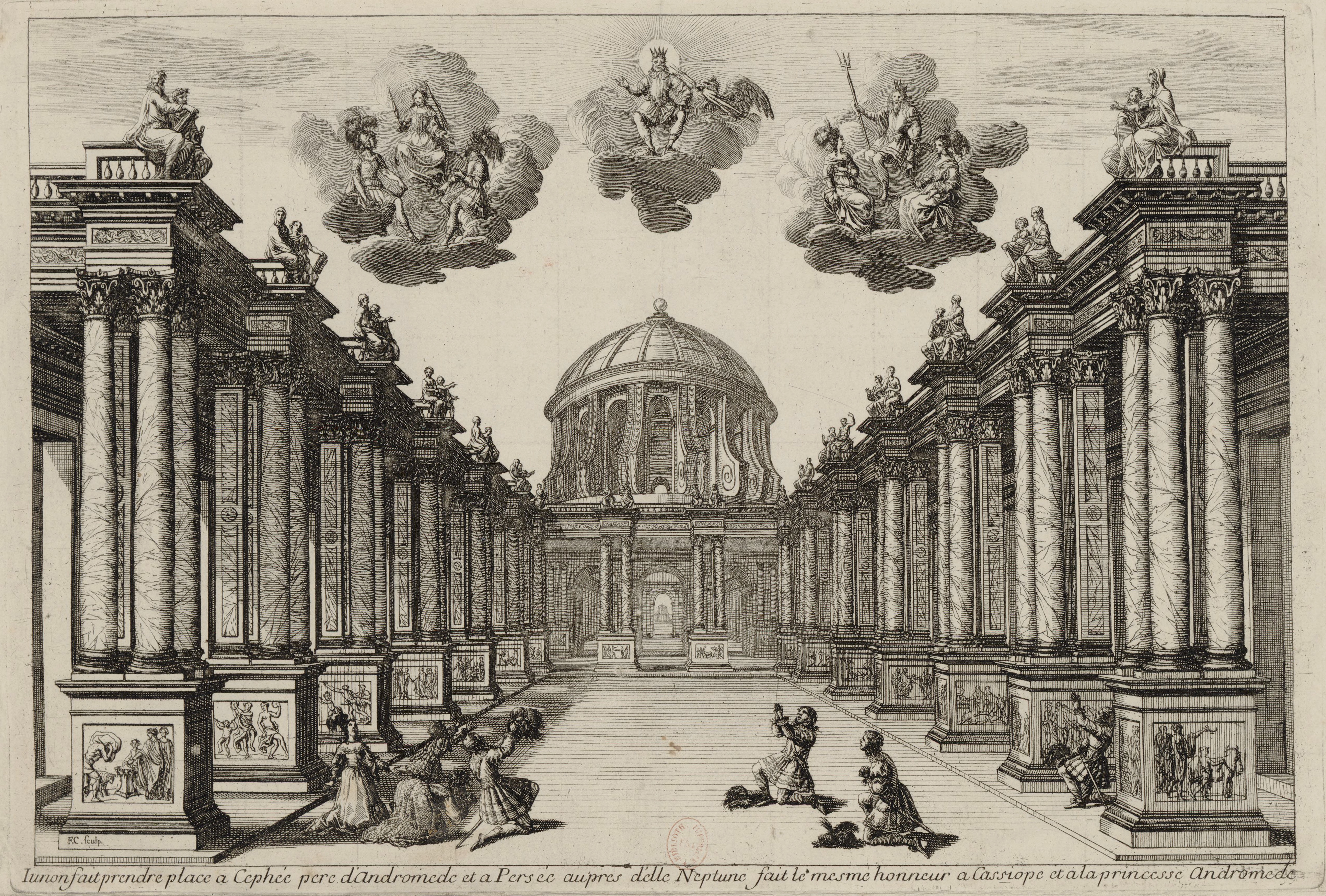 Set design for Act 5 of Pierre Corneille's Andromède as first performed on 1 February 1650 by the Troupe Royale at the Petit-Bourbon in Paris